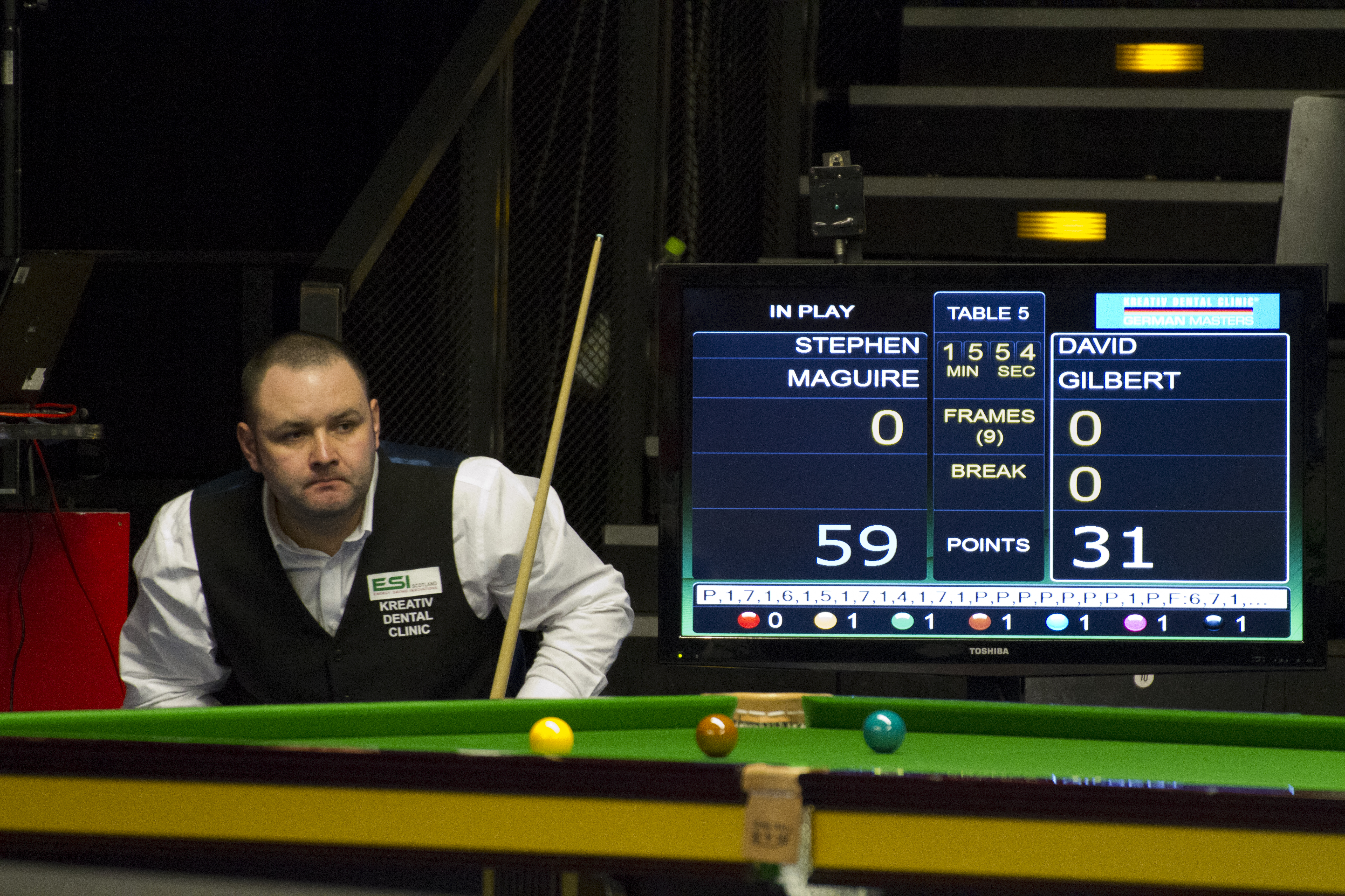 Round of last 32 Judd Trump vs. Michael Holt (TV-Table) Neil Robertson vs. Fergal O‘Brien Xiao Guodong vs. Liam Highfield Mark King vs. Barry Hawkins Stephen Maguire vs. David Gilbert